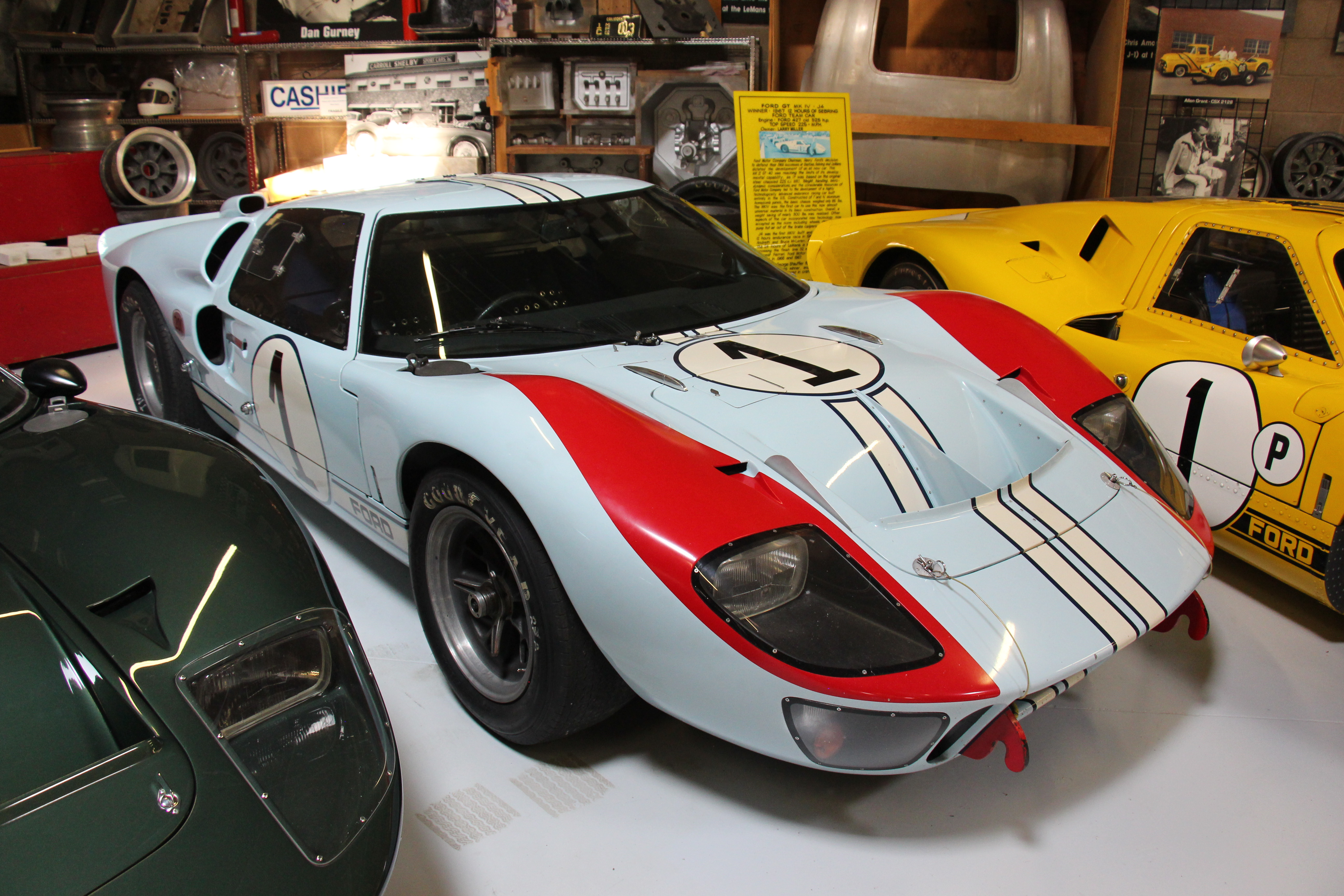 Ford GT40 Mark II (1966 24 Hours of Le Mans, No.1) of Ken Miles (UK) and Denny Hulme (NZ). Photographed at the Shelby American Collection, Boulder